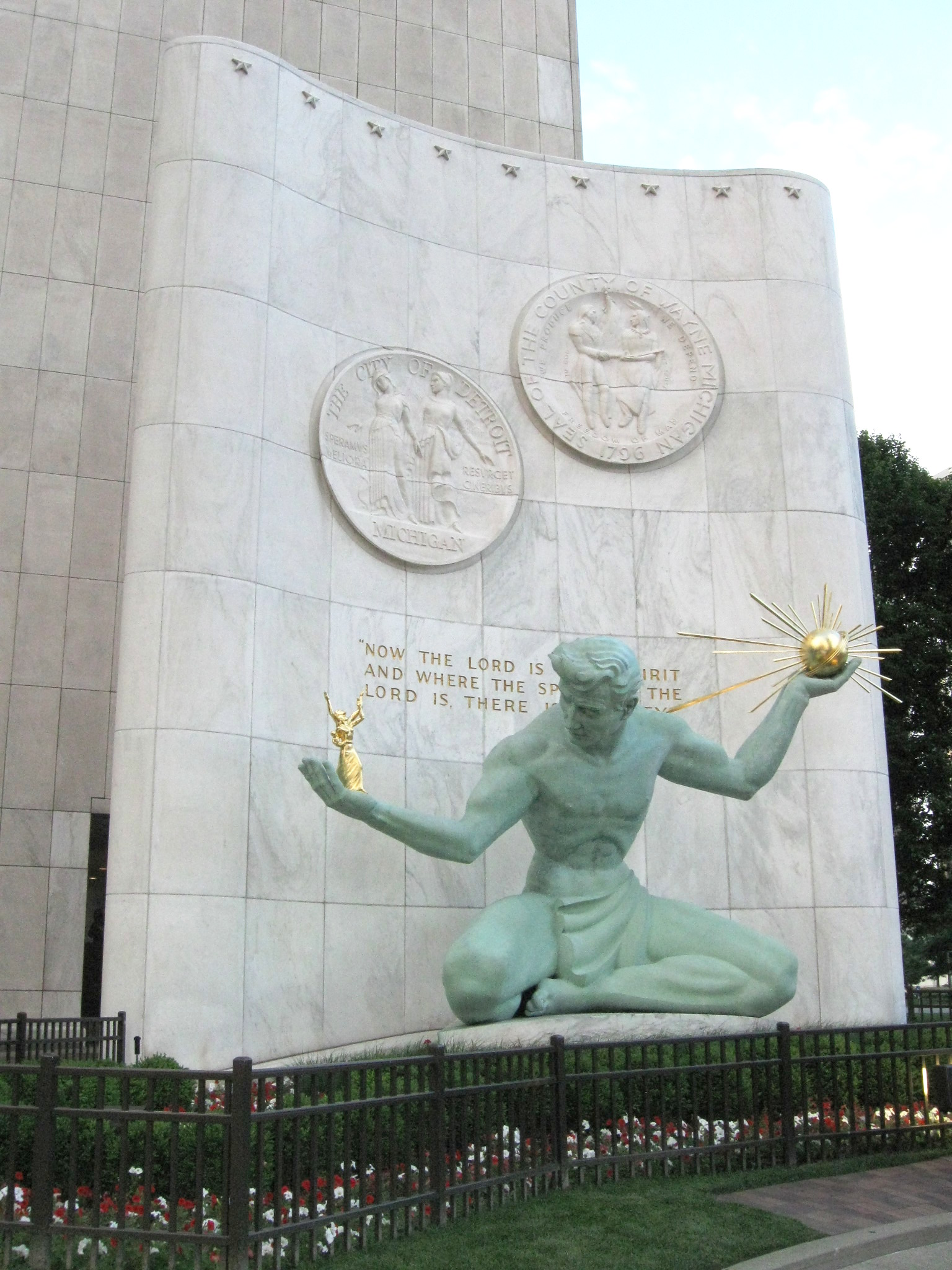 The (old) Detroit City/County Building (Not sure what it's called now)